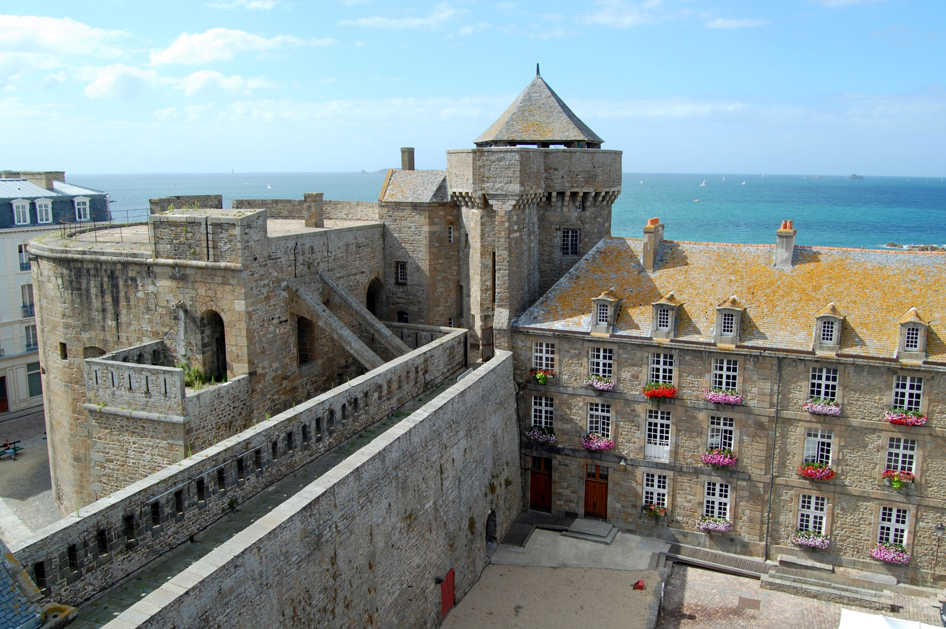 Castle of Saint Malo(Brittany France) Qui Qu'en Grogne Tower